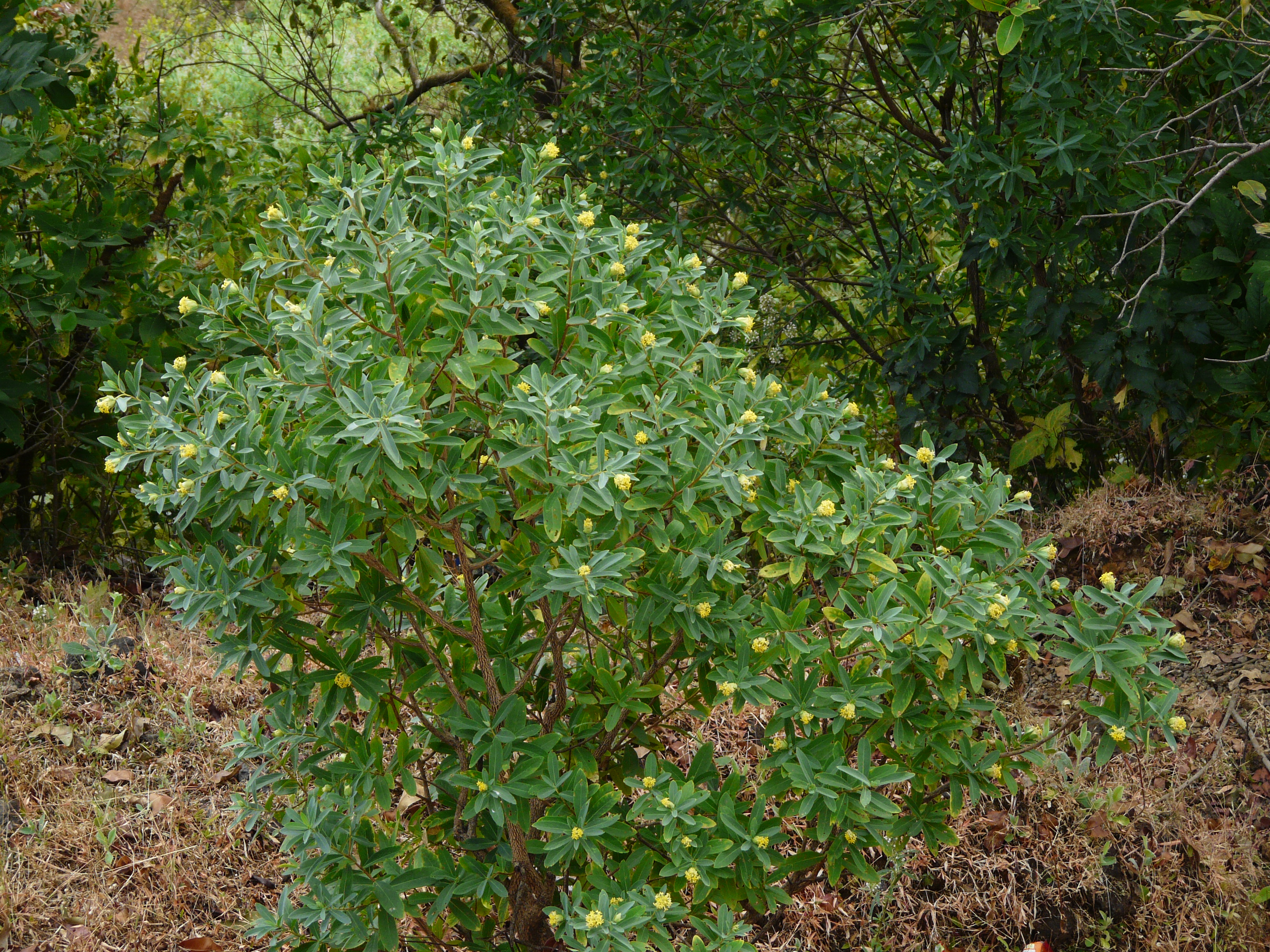 Thymeleaceae (daphne family) » Gnidia glauca NY-dee-uh -- pertaining to Gnidus (also spelled Knidos and Cnidus), in Caria (Asia Minor) GLAW-kuh -- meaning, bloom has thin powder (like plums) commonly known as: balsam tree, fish poison bush, woolly-headed gnidia • Kannada: mukkudaka, mukuthi, raami • Malayalam: nanju • Marathi: दांतपाडी datpadi, रामेठा rameta • Tamil: nacchinar References: Flowers of India • Common Indian Wild Flowers by Isaac Kehimkar • Flowers of Sahyadri by Shrikant Ingalhalikar